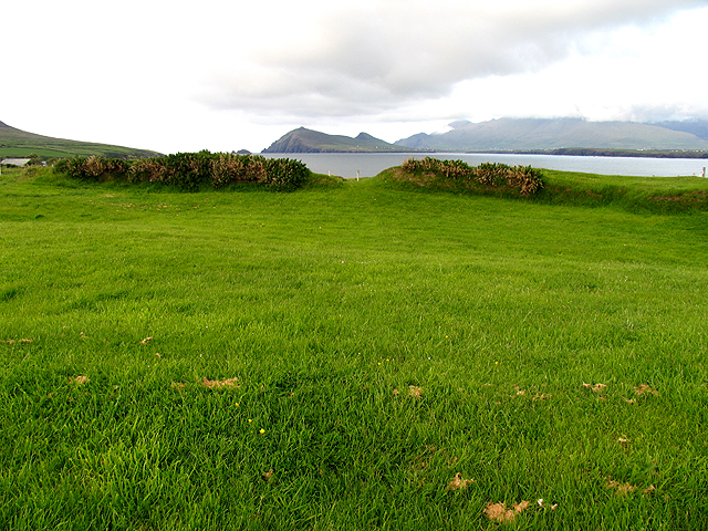 Dun an Oir. The fort's remains are right here at this spot. Ballydavid Head and the coastline north east of this spot are just visible in the top of the picture.